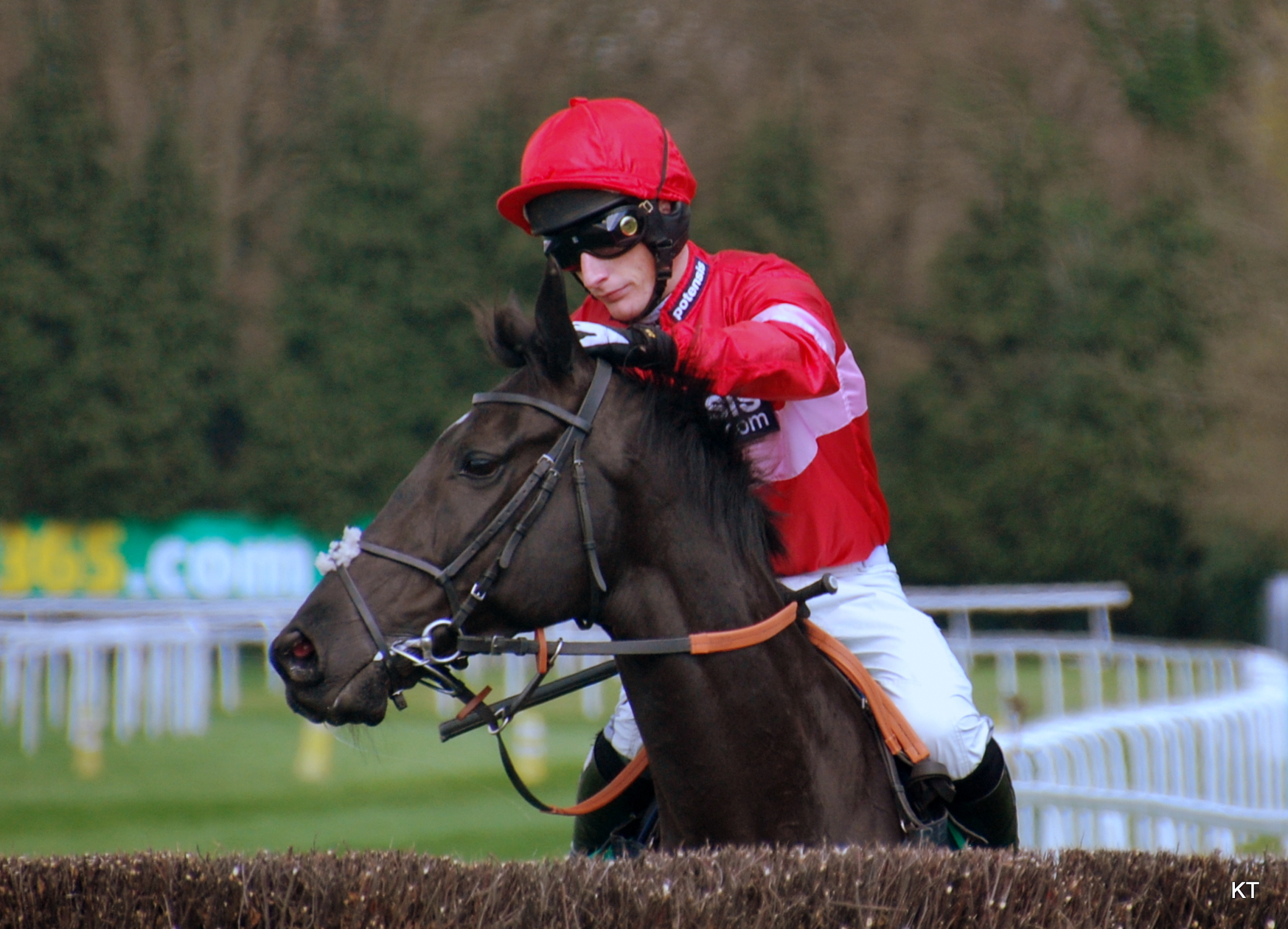 Daryl Jacob riding Sanctuaire at Celebration Chase at Sandown in 2013